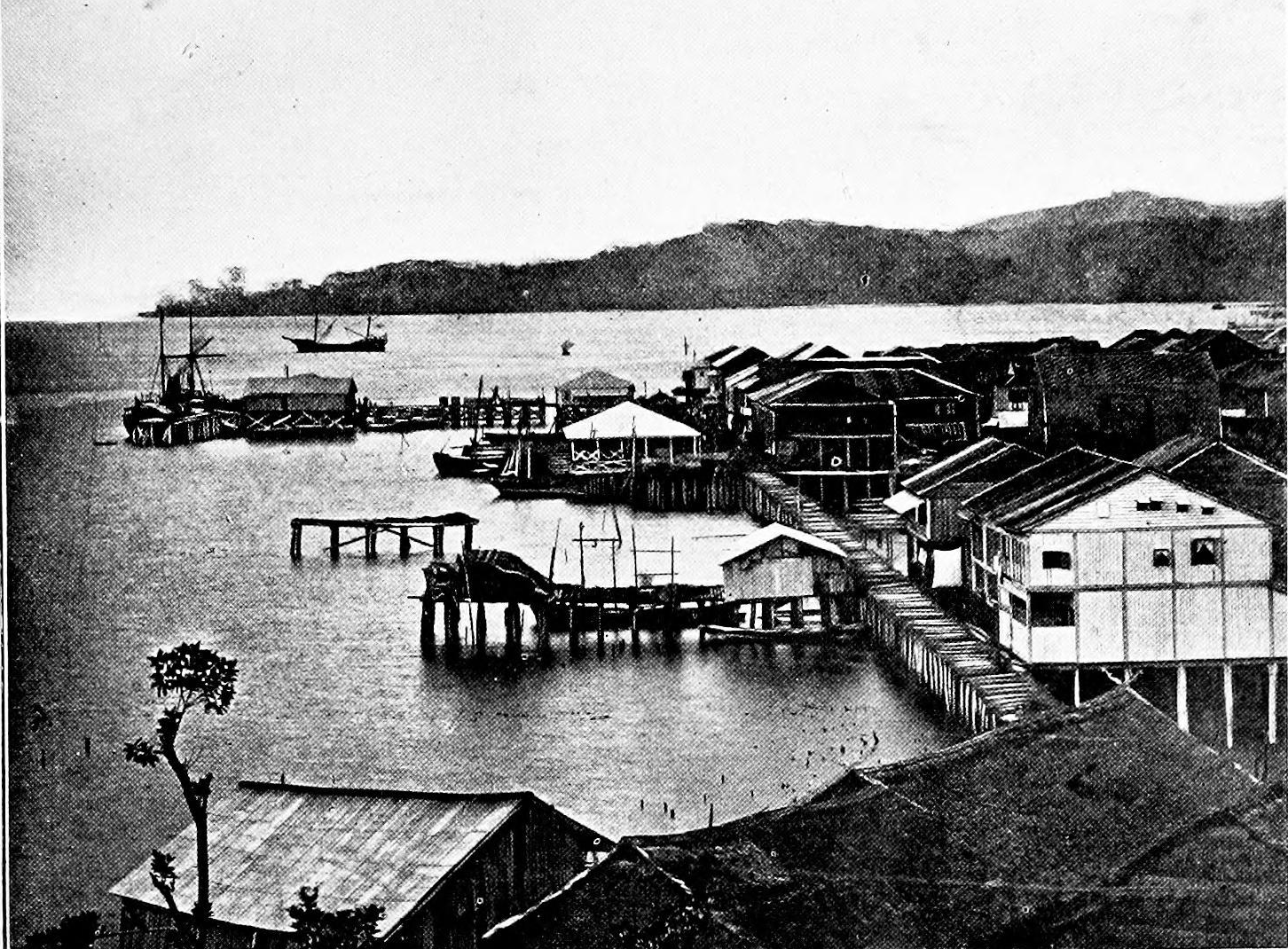 View of Sandakan about 1895